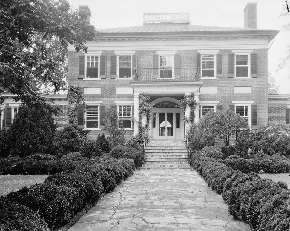 View of 'Mirador,' the Langhorne family home near Greenwood, Albemarle County, Virginia, by the American photographer and photojournalist Frances Benjamin Johnston. Dated 1926. This 8 x 10 safety film negative forms part of the Johnston archives at the Library of Congress, to which the photographer bequeathed her works in perpetuity, hence there are no restrictions on publication. Image courtesy of the Prints and Photographs Division, Library of Congress, Washington, D.C.